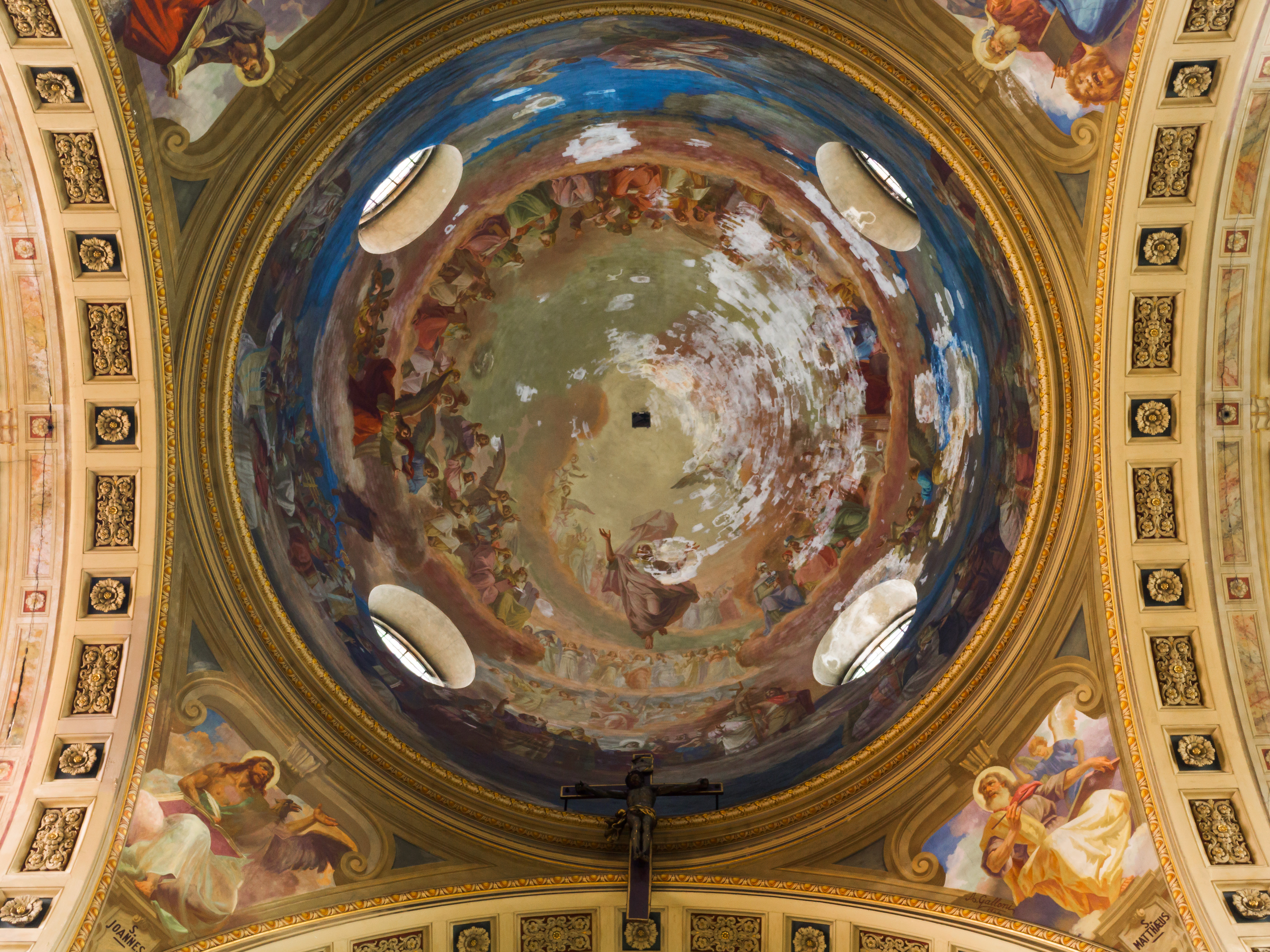 This is a photo of a monument which is part of cultural heritage of Italy.